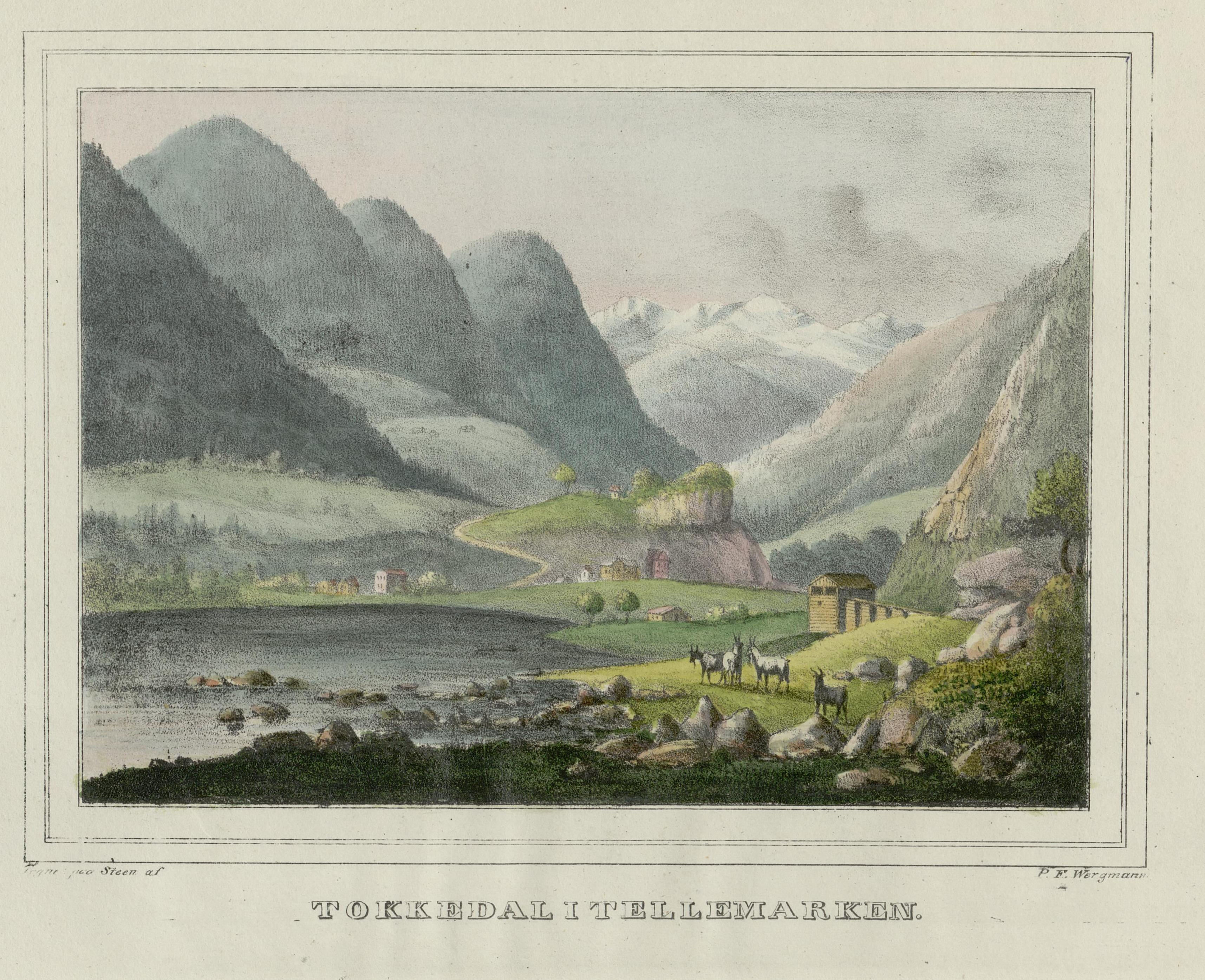 Illustration from the book "Norsk Prospect-Samling" by Wergmann, P.F. and published by P.F. Wergmann (no, 1833-1836)